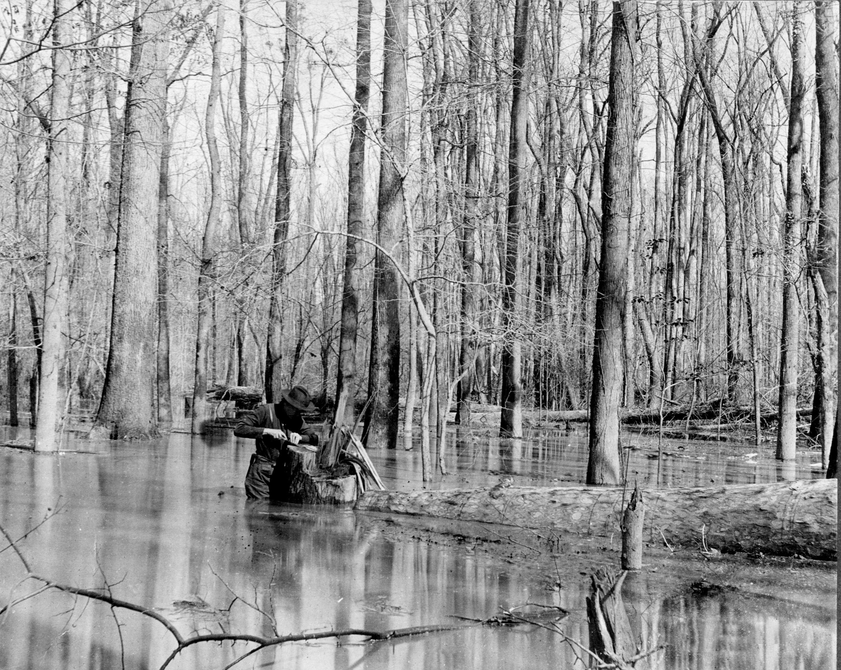 Red Gum felled- also called Sweet Gum. Left in woods to dry out with top on before cutting into logs. Young Gum and Elm in background. Congaree River, Richland Co., South Carolina.